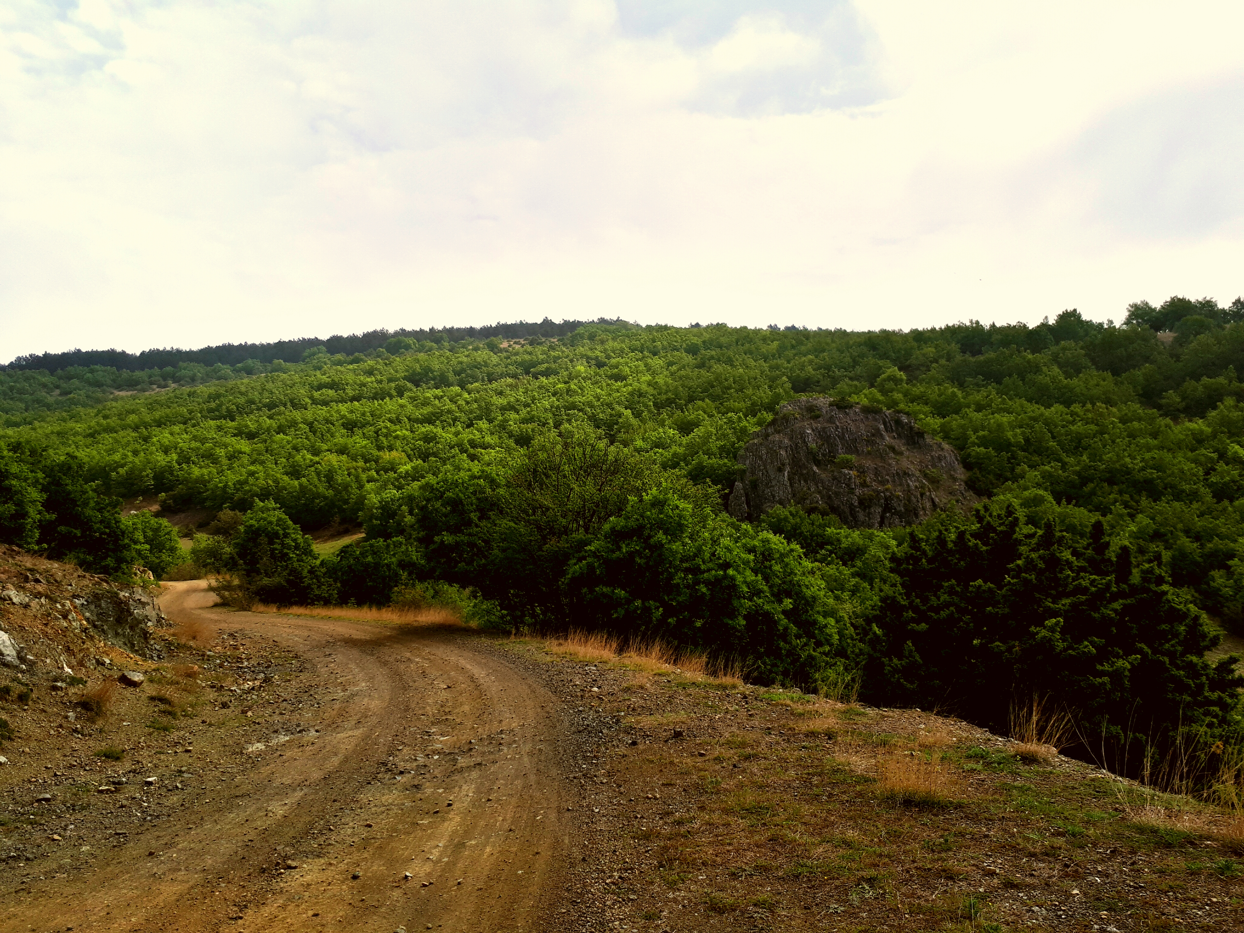 View of the iconic stone in the village Kučkovo